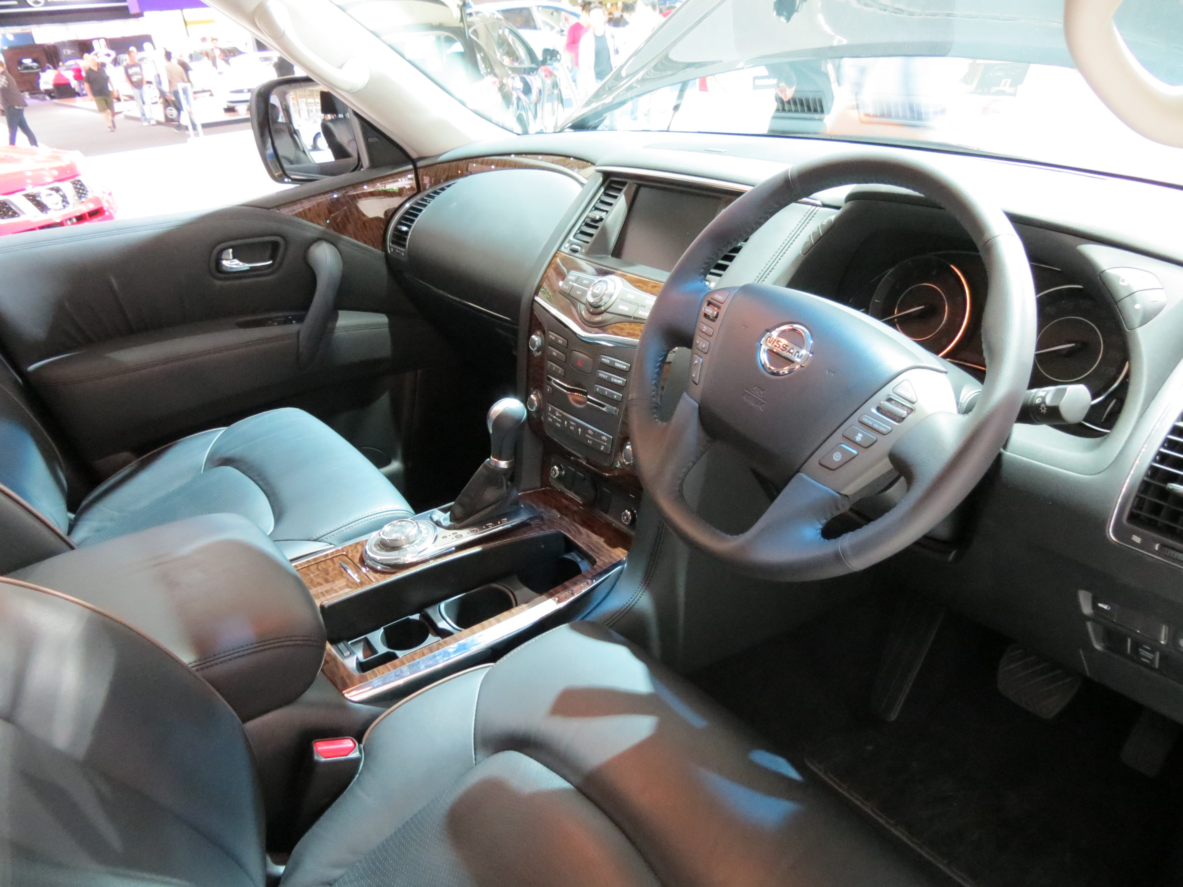 2012 Nissan Patrol (Y62) Ti-L wagon. Photographed at the 2012 Australian International Motor Show, Sydney, New South Wales, Australia.